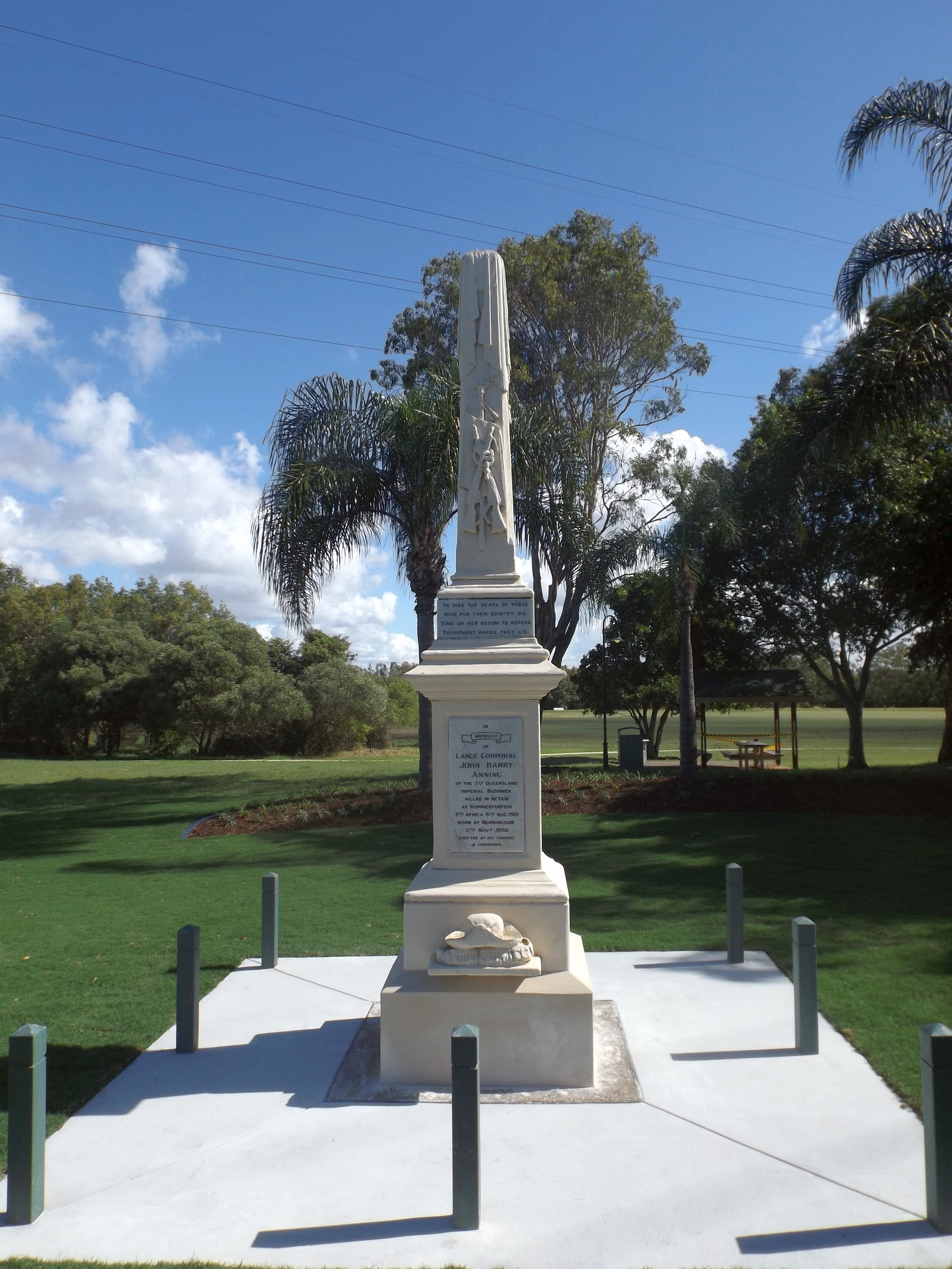 Photo of the front of the Anning Monument at Hemmant, Brisbane, Queensland, Australia.